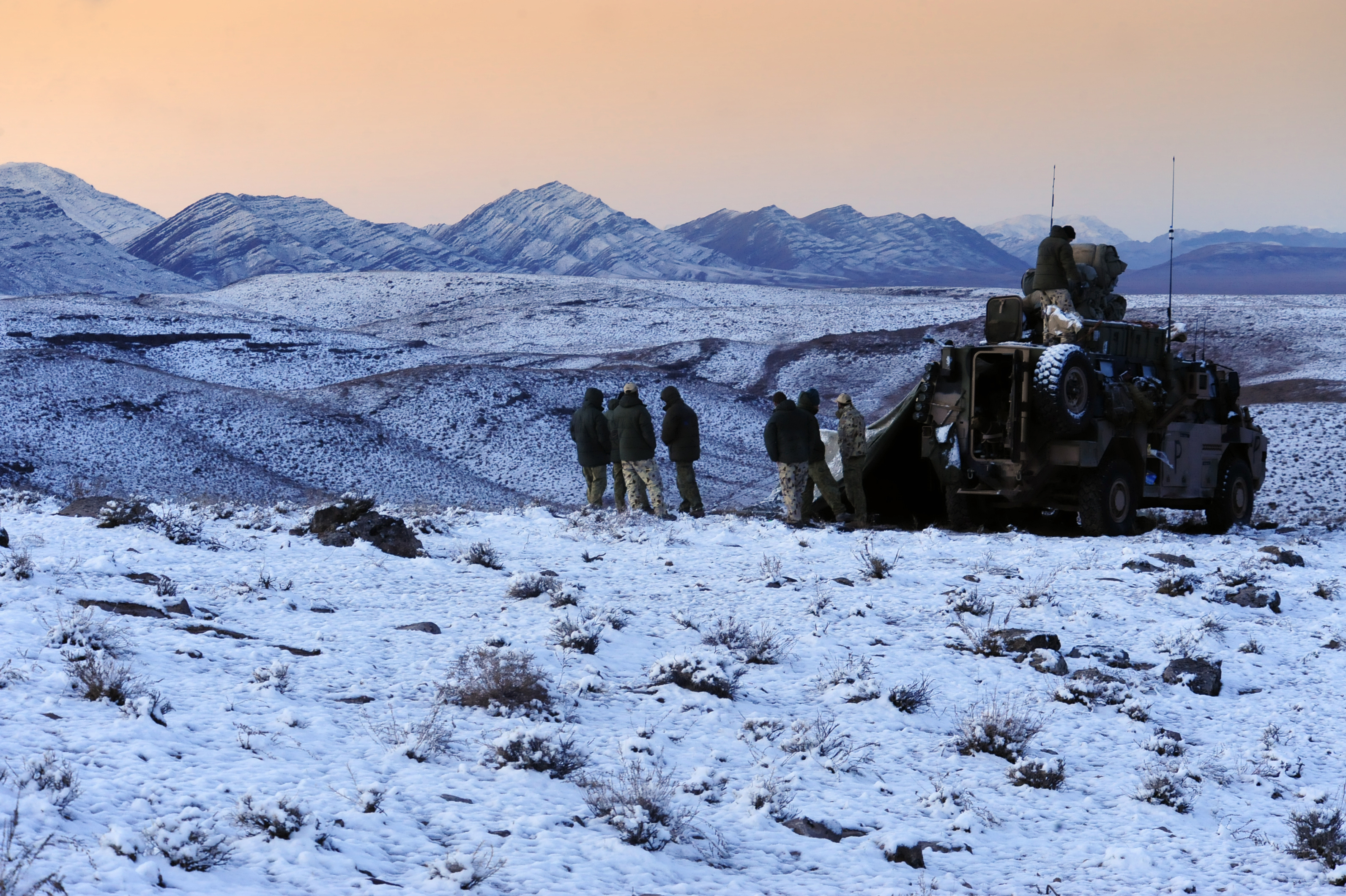 While Australia swelters in summer heat, soldiers from Australia’s Special Operations Task Group (SOTG) in Afghanistan make the most of a winter wonderland. Patrolling among the isolated village communities in the mountains of Uruzgan Australia’s Special Operations Task Group (SOTG) is continuing to establish new and important bonds with the people.